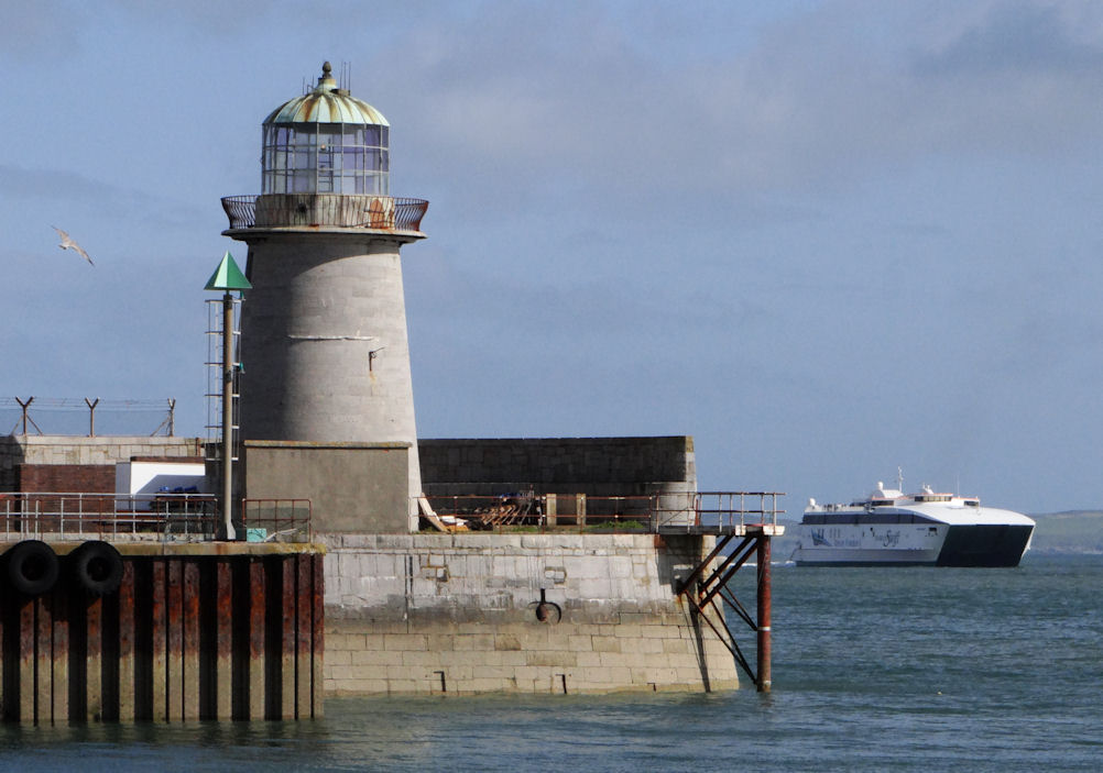 Holyhead Mail Pier Light, Salt Island, Anglesey, built in 1821 by the engineer John Rennie and reputed to be the second oldest lighthouse in Wales.